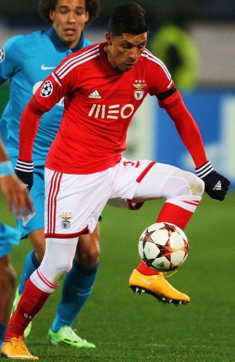 Enzo Pérez